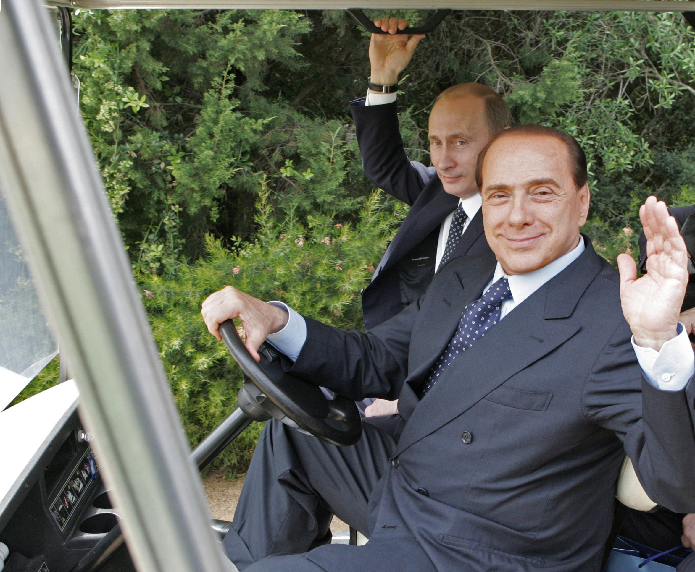 SARDINIA. With Silvio Berlusconi at Villa Certosa.